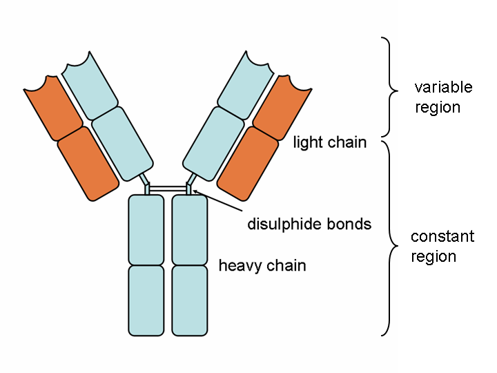 Image created by User:Je at uwo based on diagrams from the textbook Immunobiology